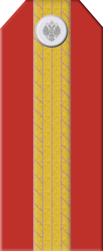 Rank insignia of the Imperial Russian Army until 1917, here shoulder strap: Rank: Podpraposhchik (en: Junior praporshchik, Subpraporshchik/ equvalen: Sergeant first class OR7 – NATO).